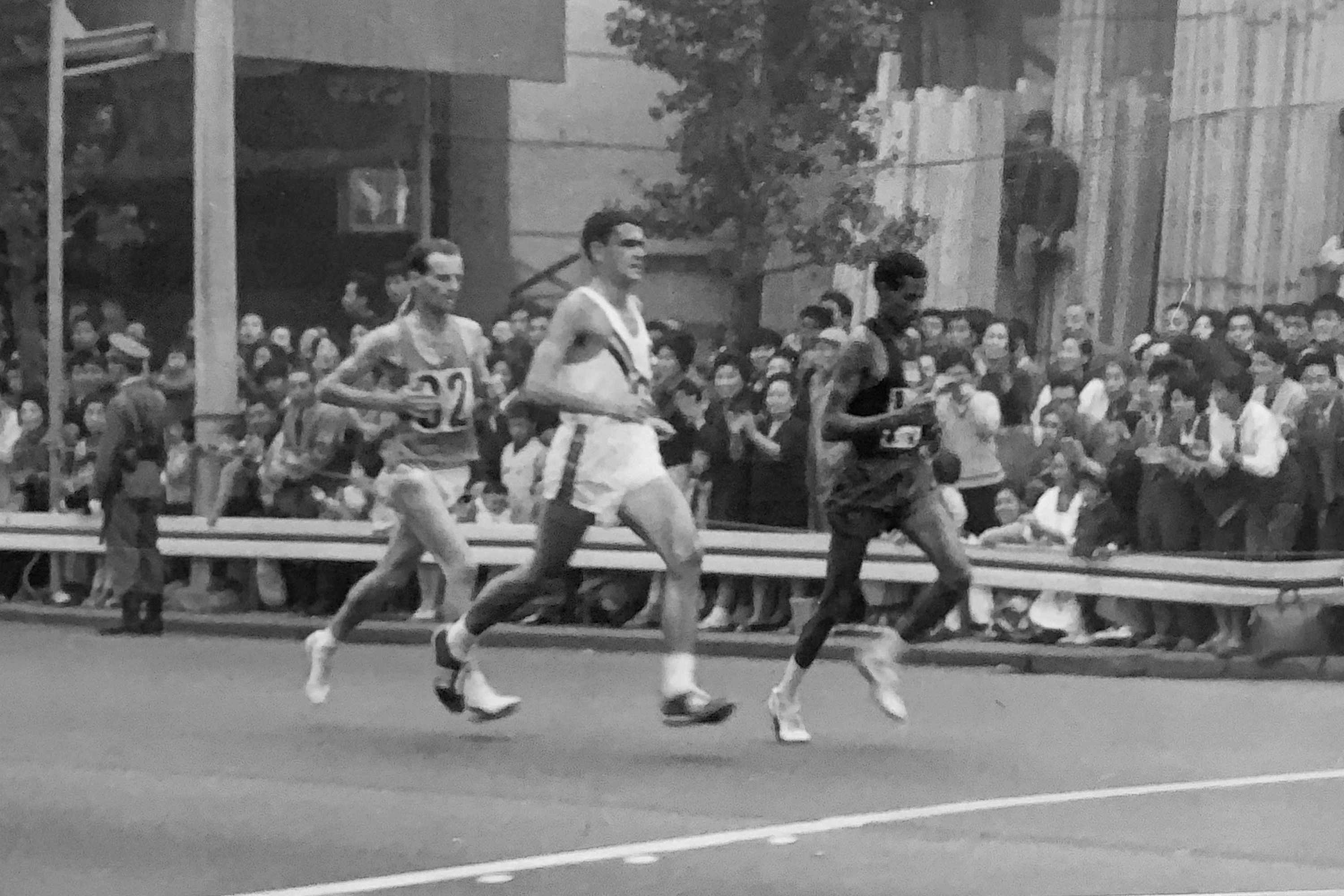 Abebe Bikila running on the Koshu Kaido